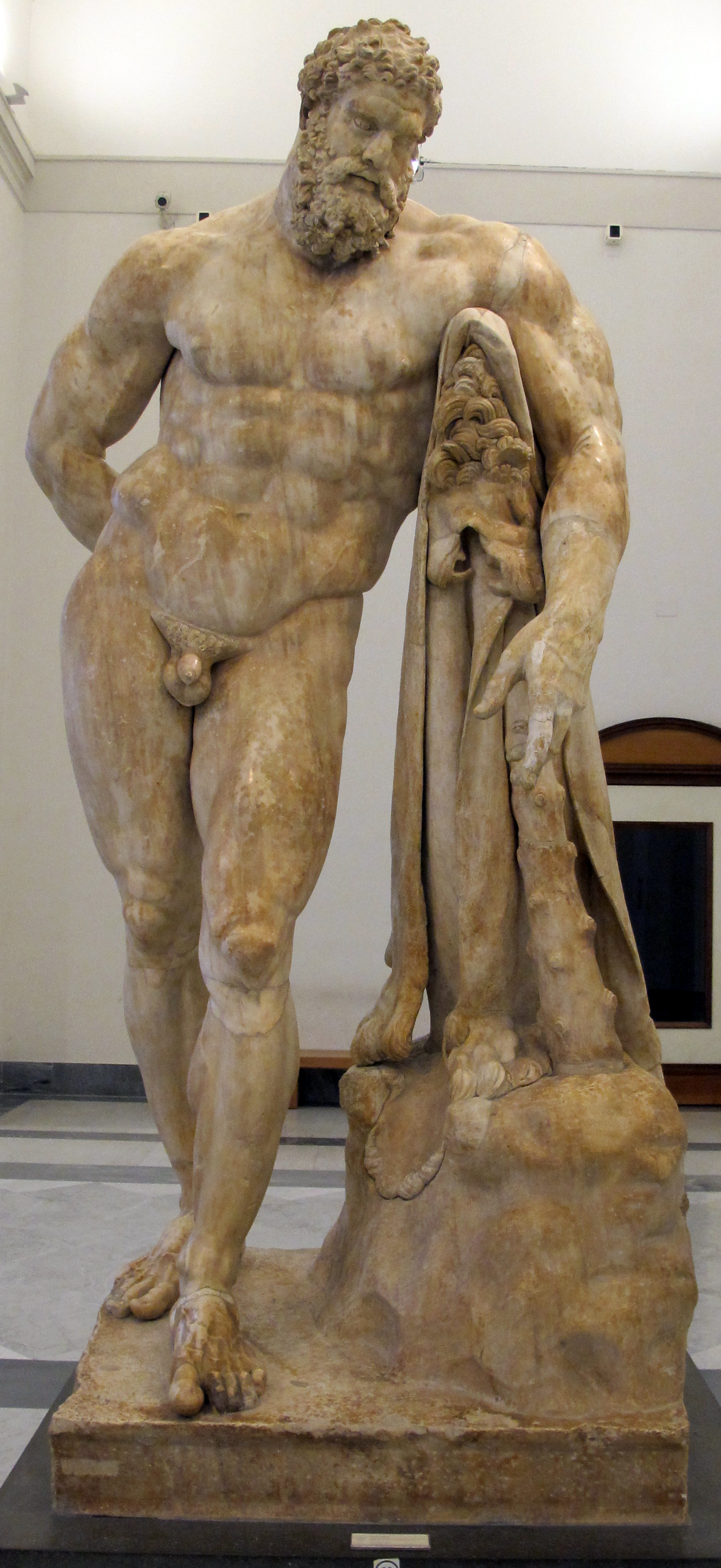 Ancient Roman statues from the Farnese Collection, now in Naples